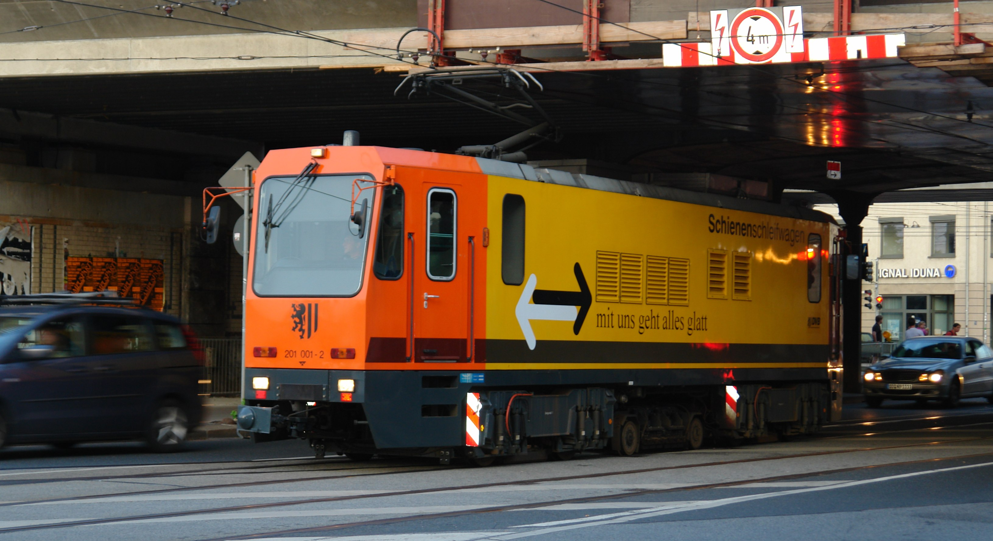 rail grinding car of Dresdner Verkehrsbetriebe, Germany